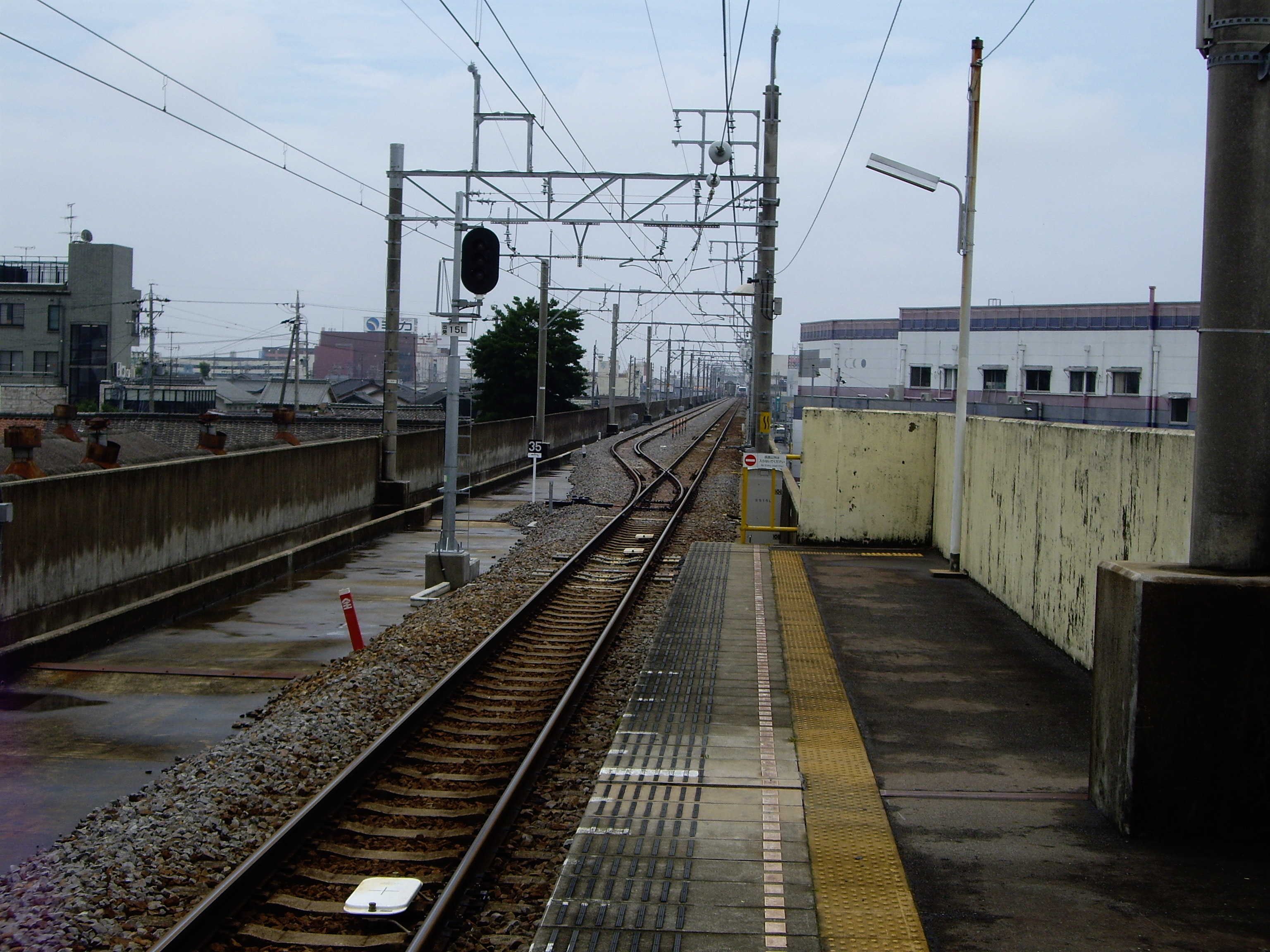 NIshioguchi South